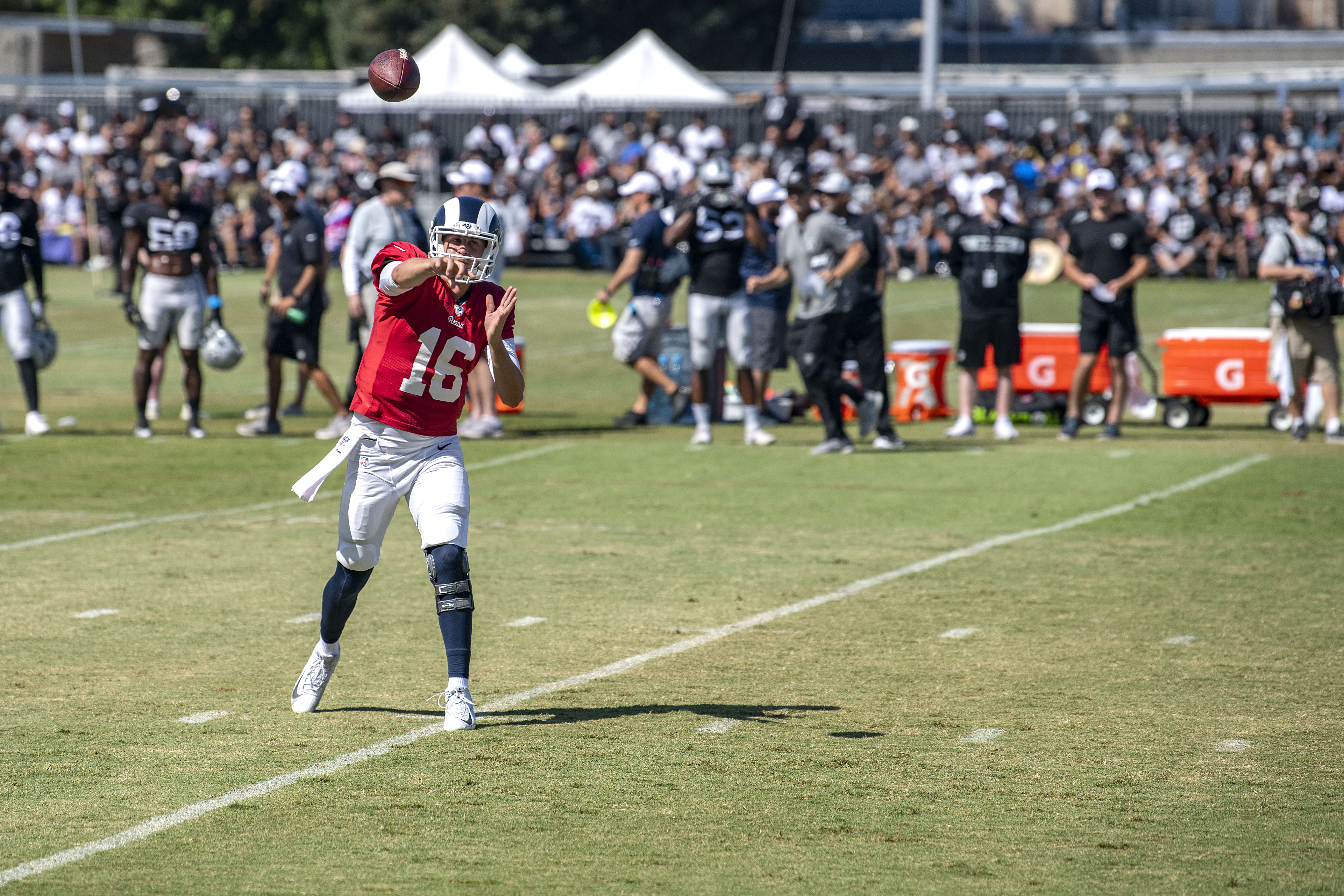 Los Angeles Rams quarterback, Jared Goff, participating in a joint practice with the Oakland Raiders during the 2019 training camp.